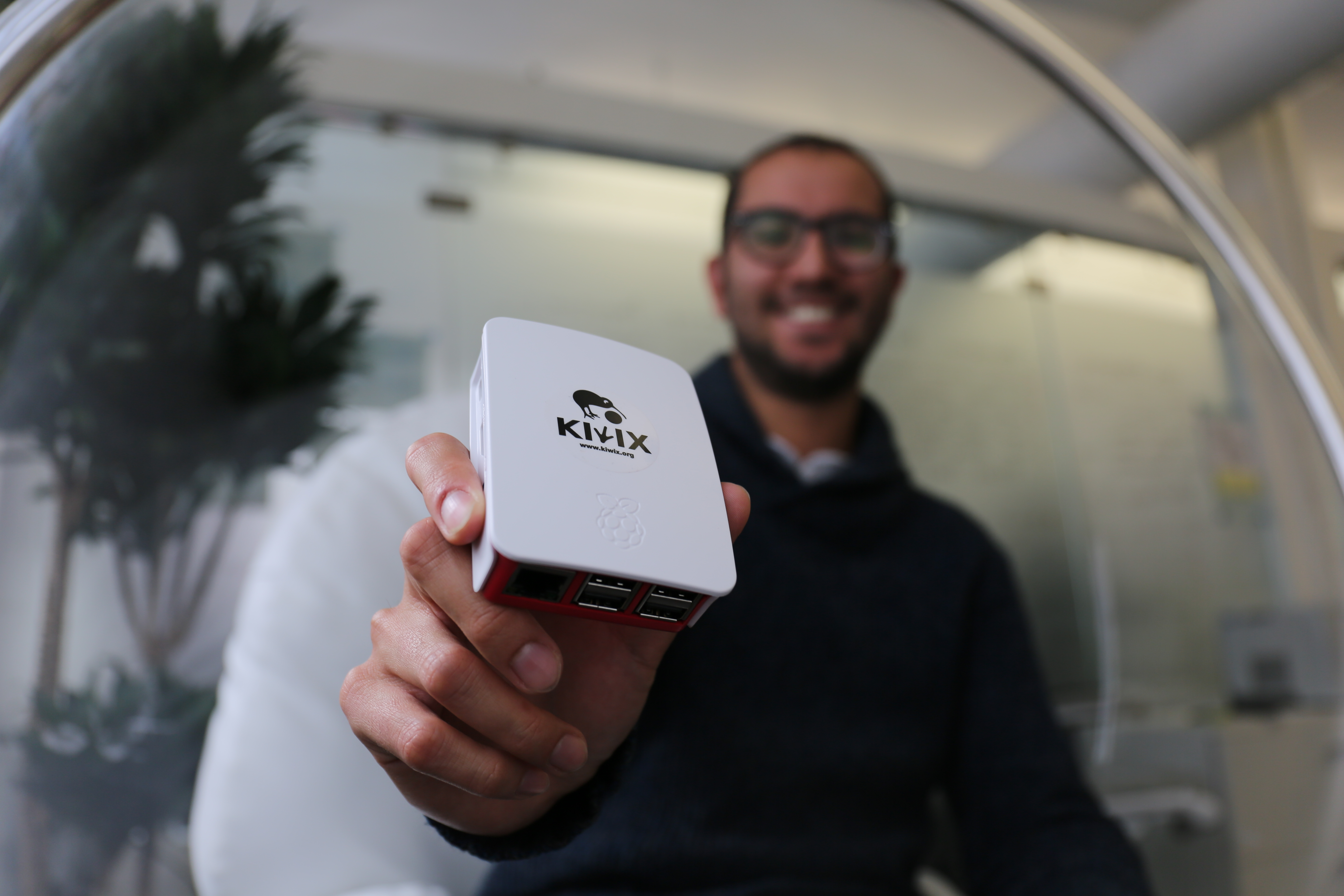 Wikimedia Foundation staffer Jorge Vargas hold a Kiwix unit at the Foundation offices in San Francisco.